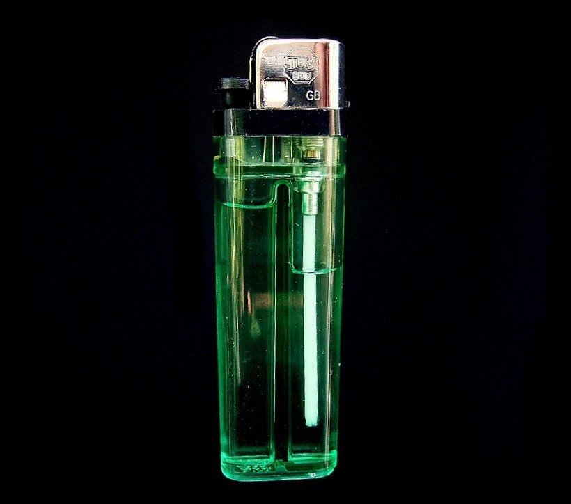 The Green Lighter